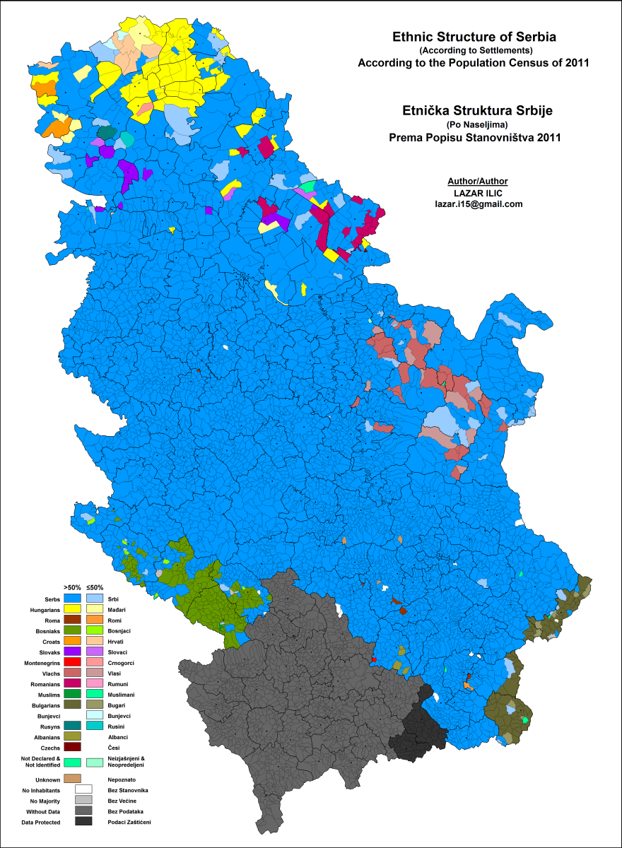 This is an ethnic map of Serbia according to the 2011 census. Српски (ћирилица): Ово је етничка карта Србије, према попису становништва 2011.